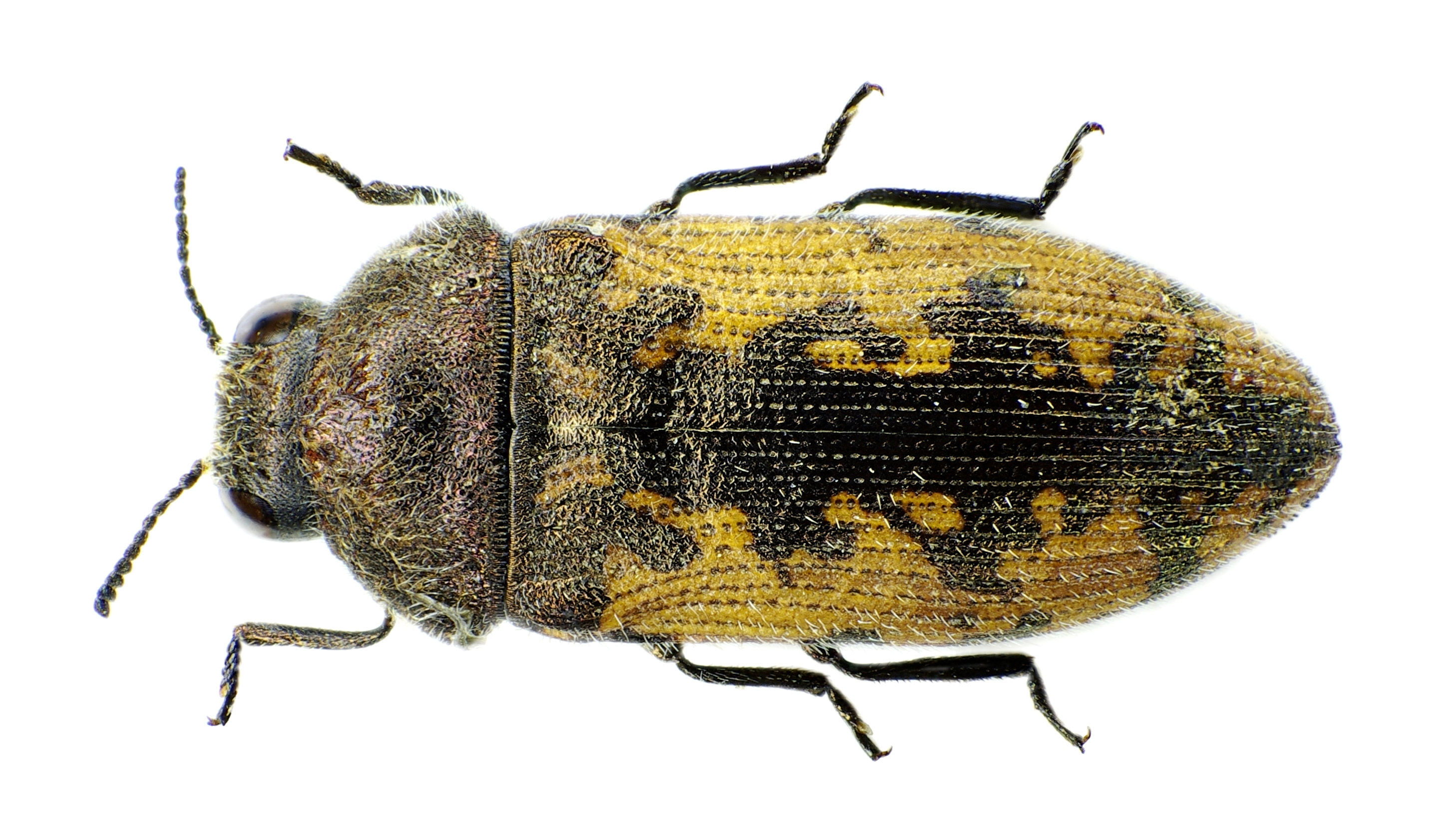 Acmaeodera pilosellae from Greece